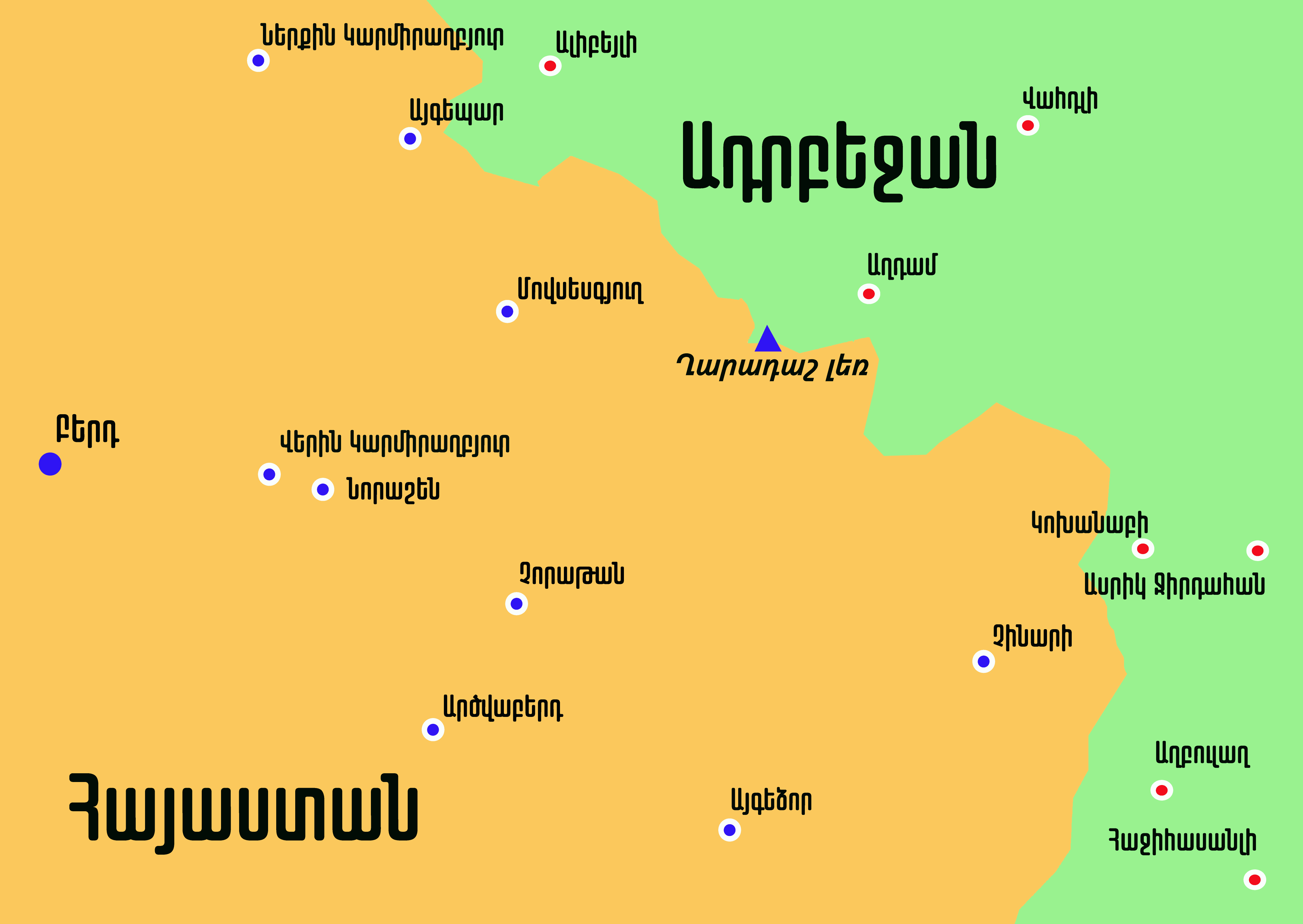 Armenian-Azerbaijani border settlements of Tavush